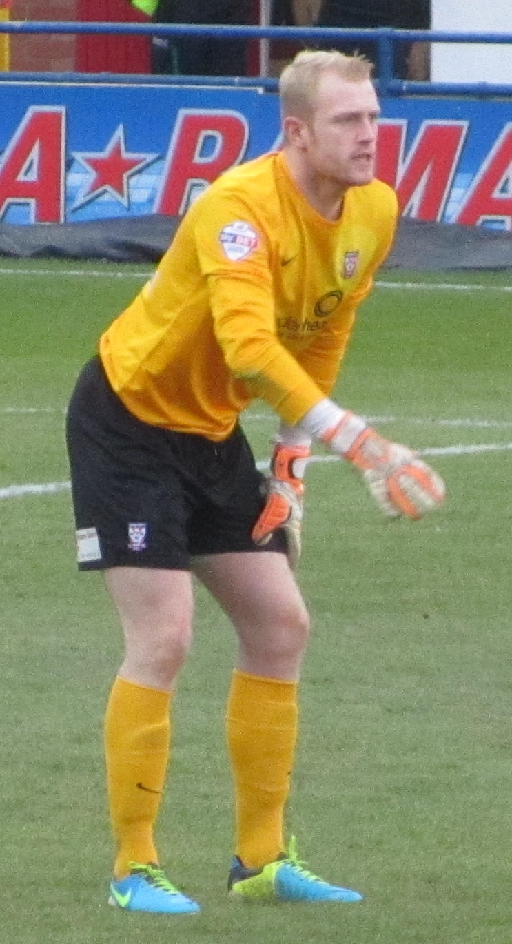 Aaron McCarey playing for York City against Rochdale at Bootham Crescent, York on 30 November 2013